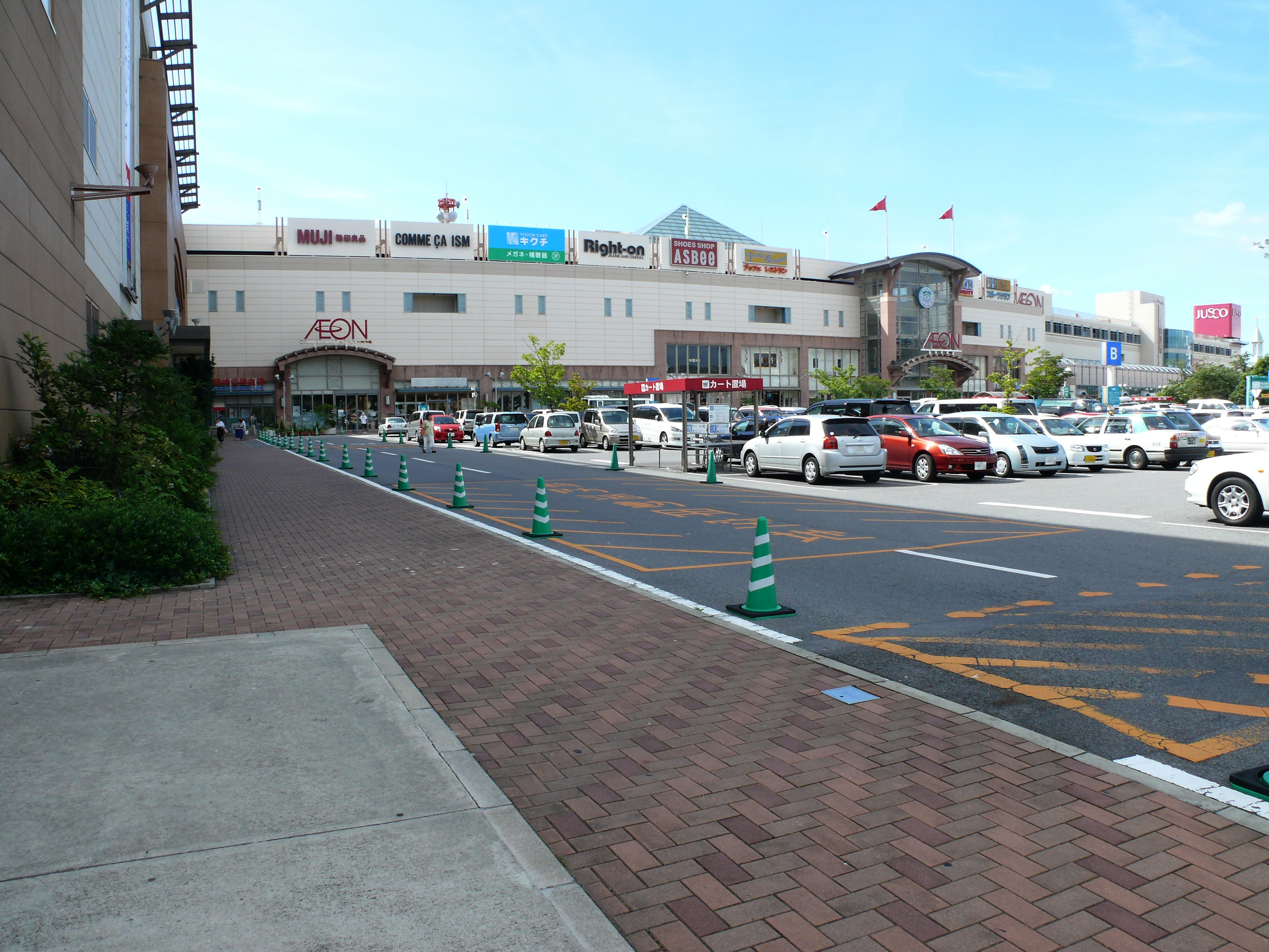 AEON Okazaki Shopping Center.